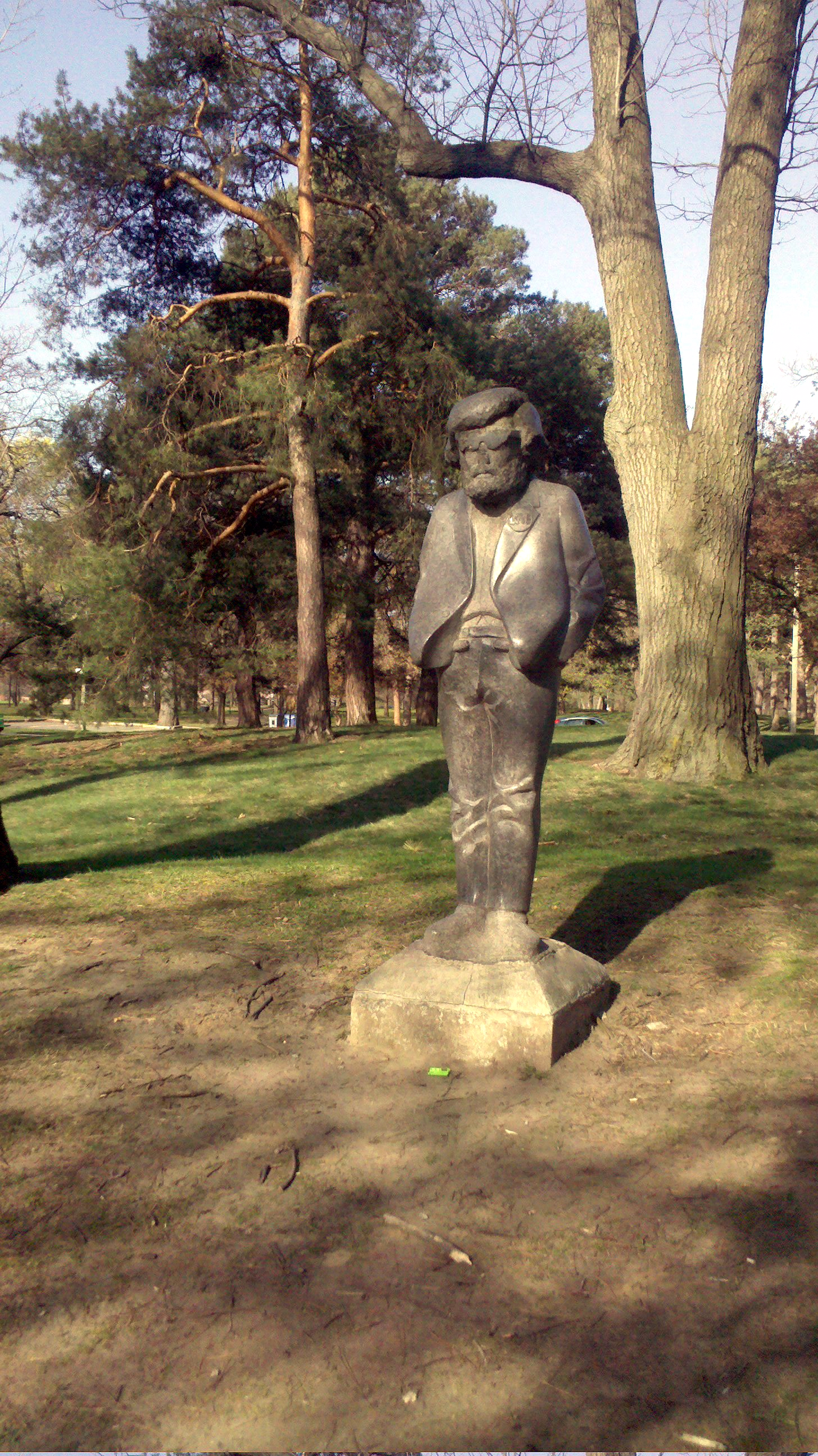 "The Hippie" (1967) by William Koochin, granite. High Park, Toronto, Ontario, Canada.